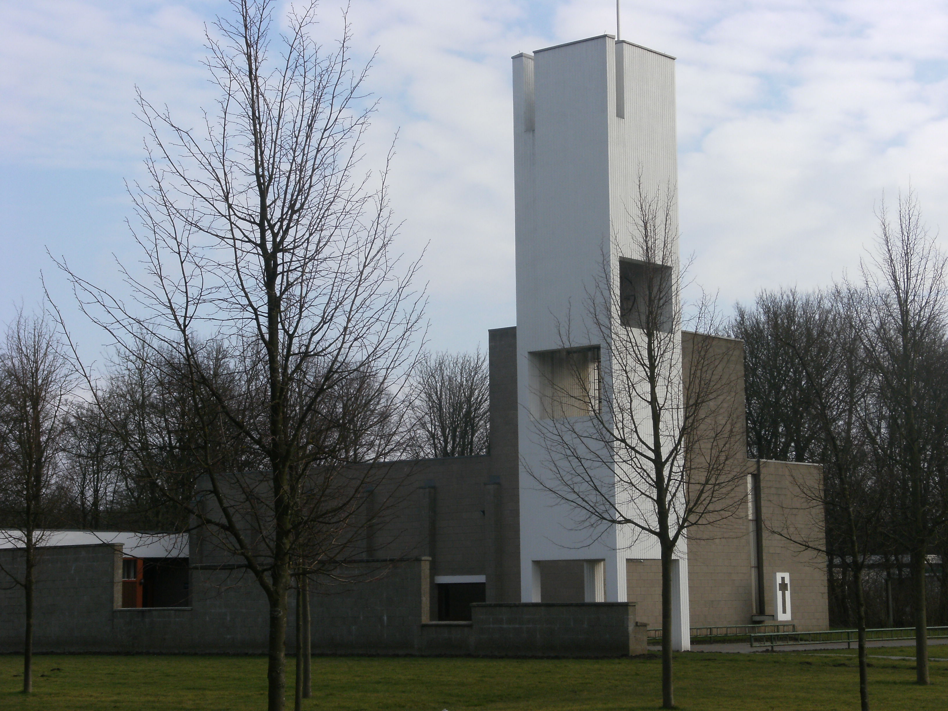 Church in Nagele.